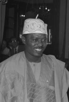 Nig. Inform. Min. Benson i/ Hotel Hilton Empf. durch Bischof Dibelius